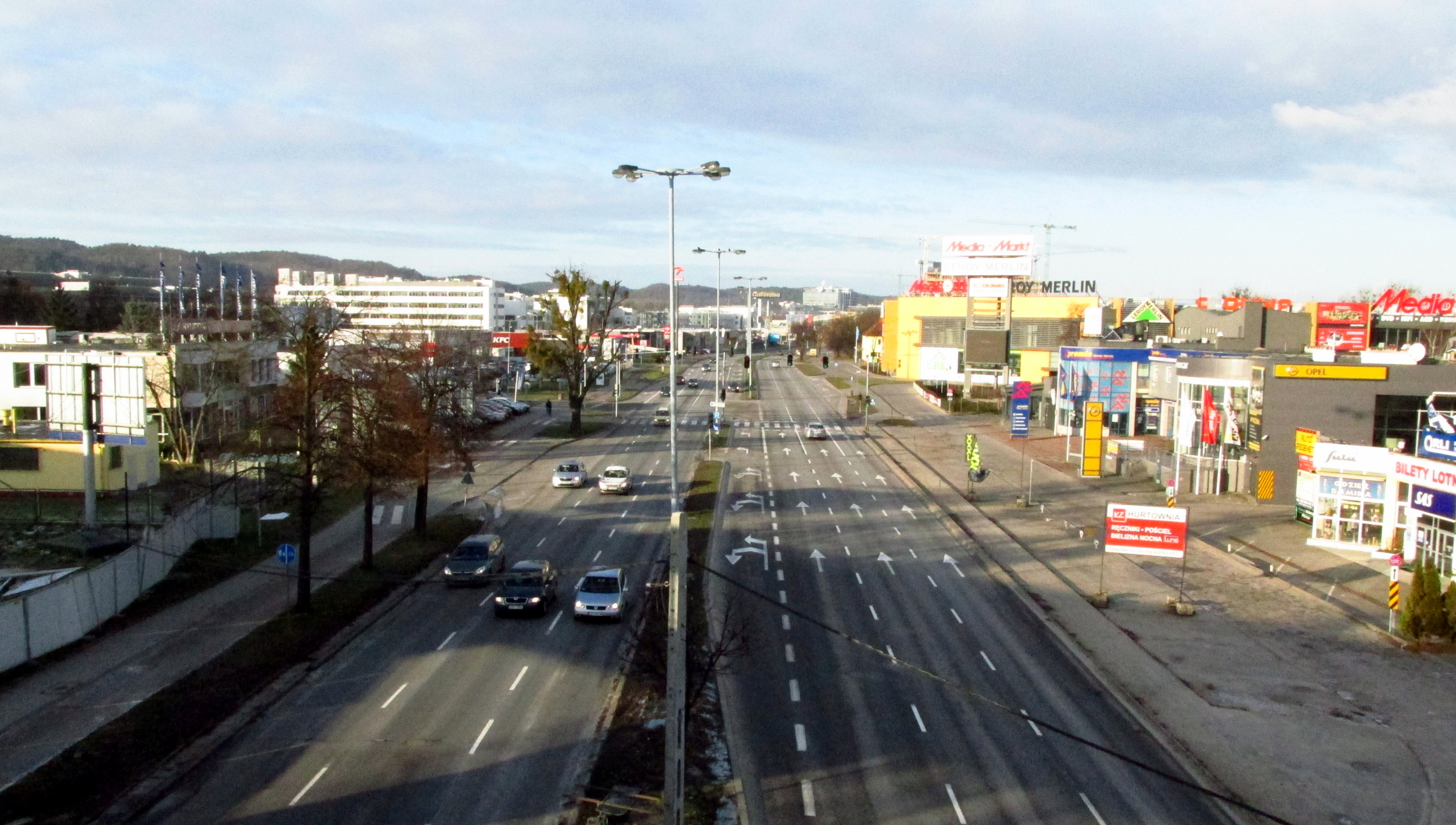 Grunwaldzka Avenue in Gdansk, Poland